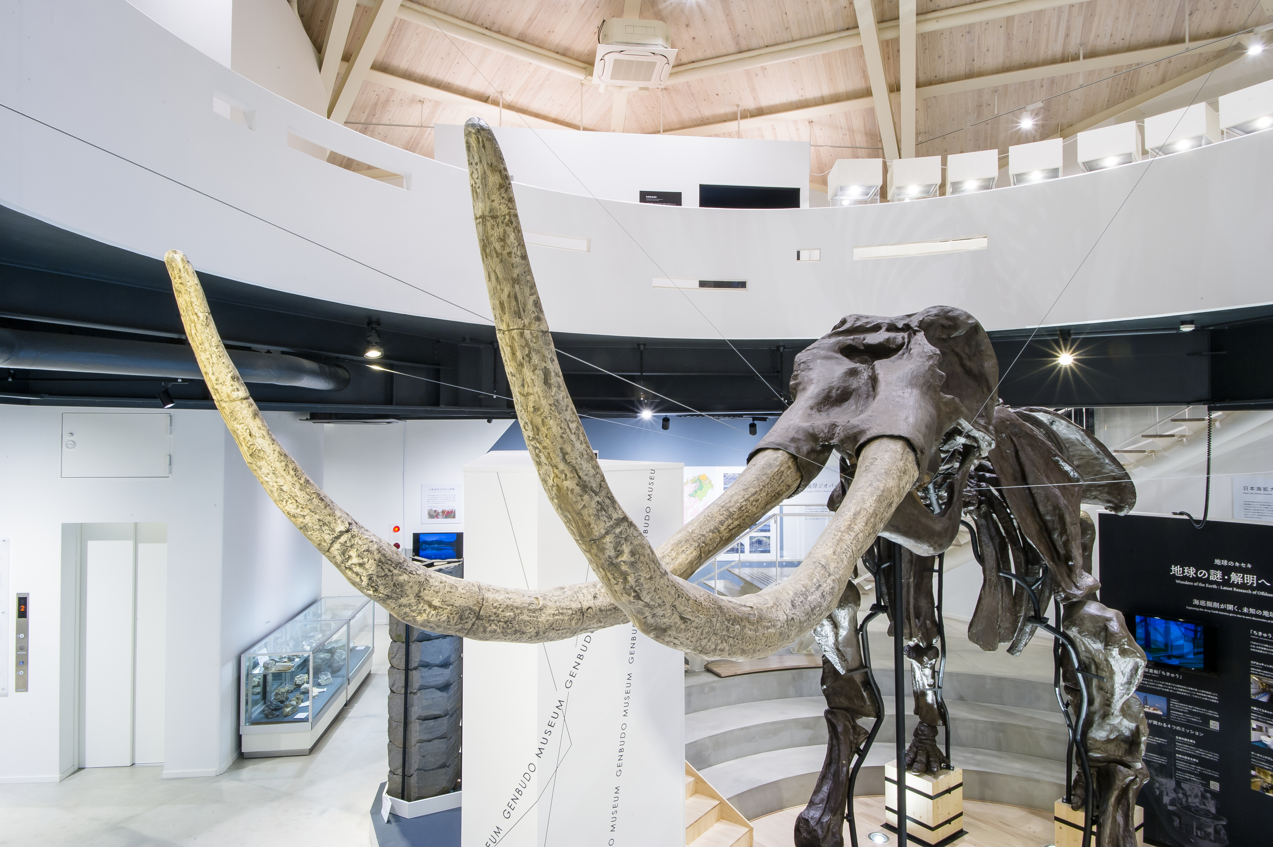 stegodon of Genbudo Museum